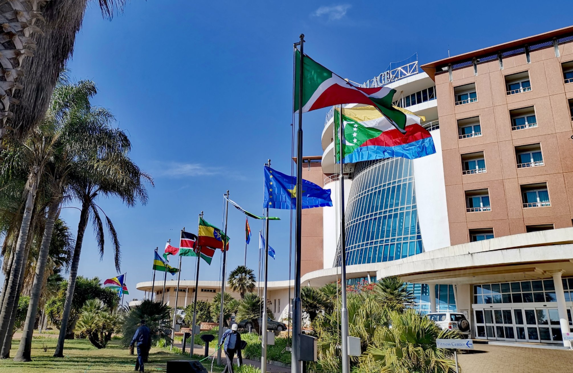 Flags waving outside Asmara palace hotel during the 23d ICSOE Conference for East Africa in Asmara, Eritrea novemer 2019.